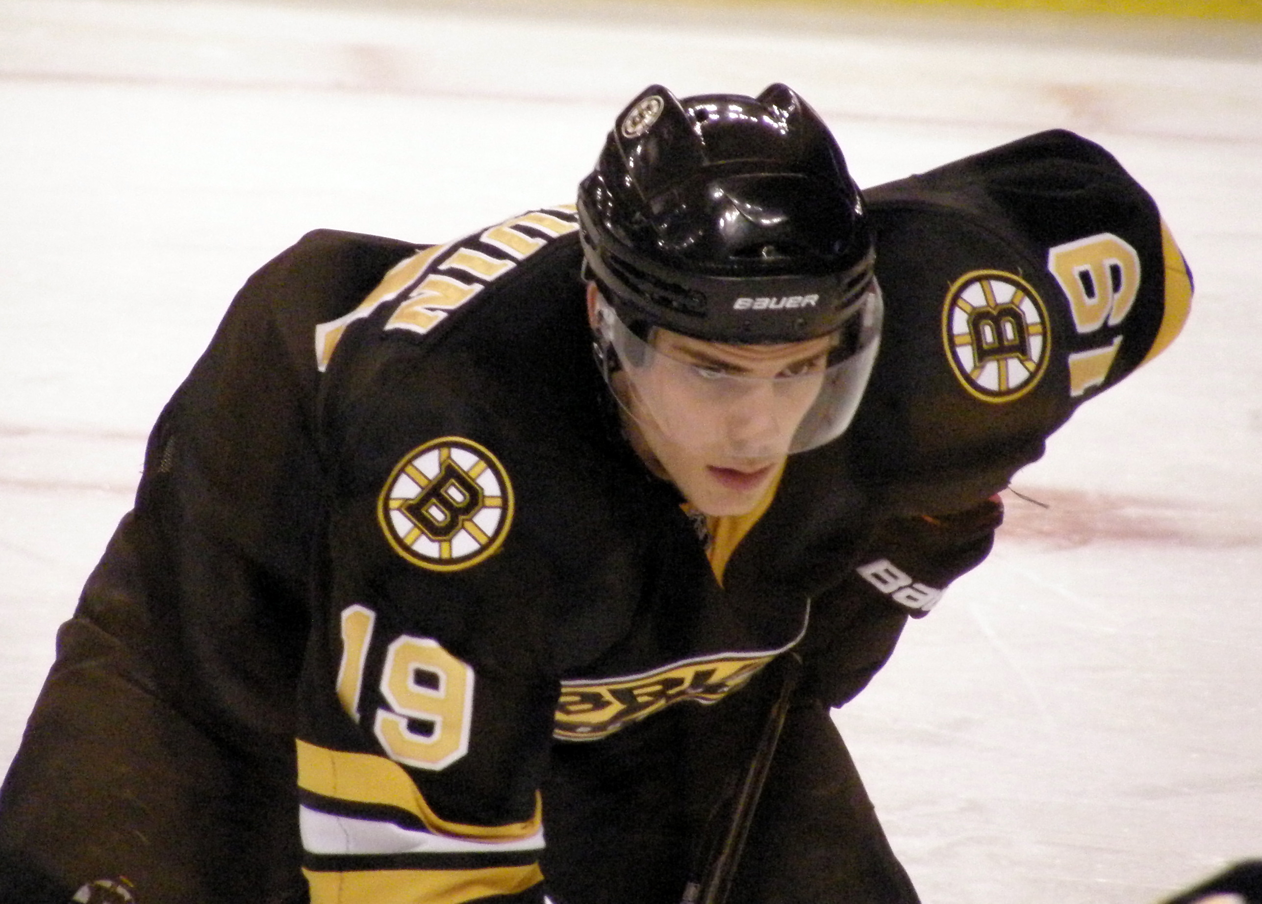 19 Tyler Seguin (C, BOS)